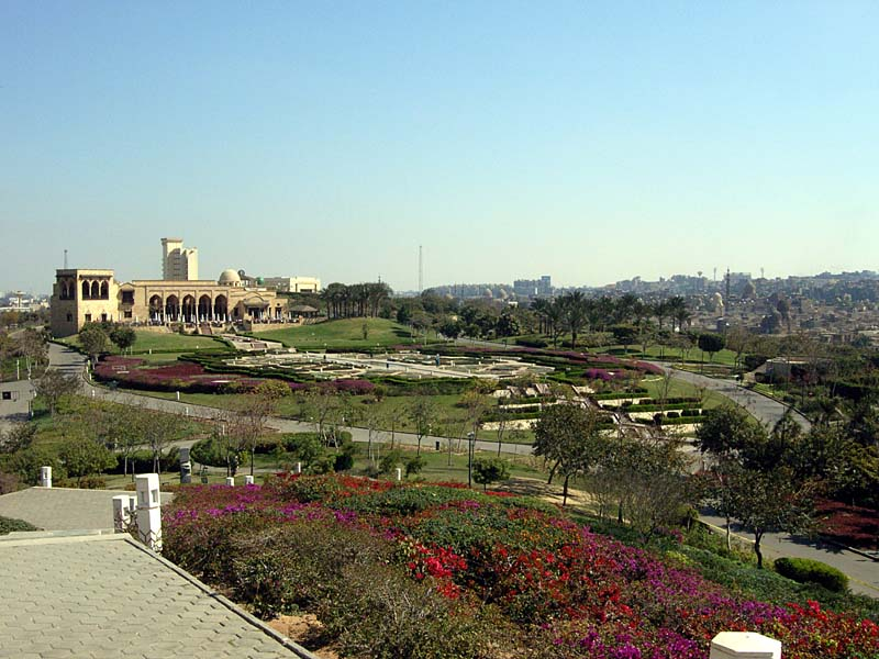 Al-Azhar Park, Cairo, View to the Studio Misr restaurant in the north of the park; Egypt